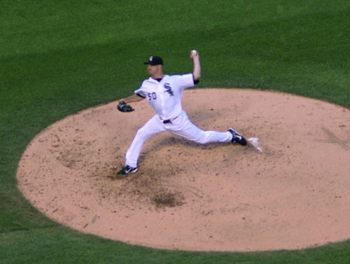 Lefty pitcher John Danks of the Chicago White Sox delivers a pitch on July 1, 2008.